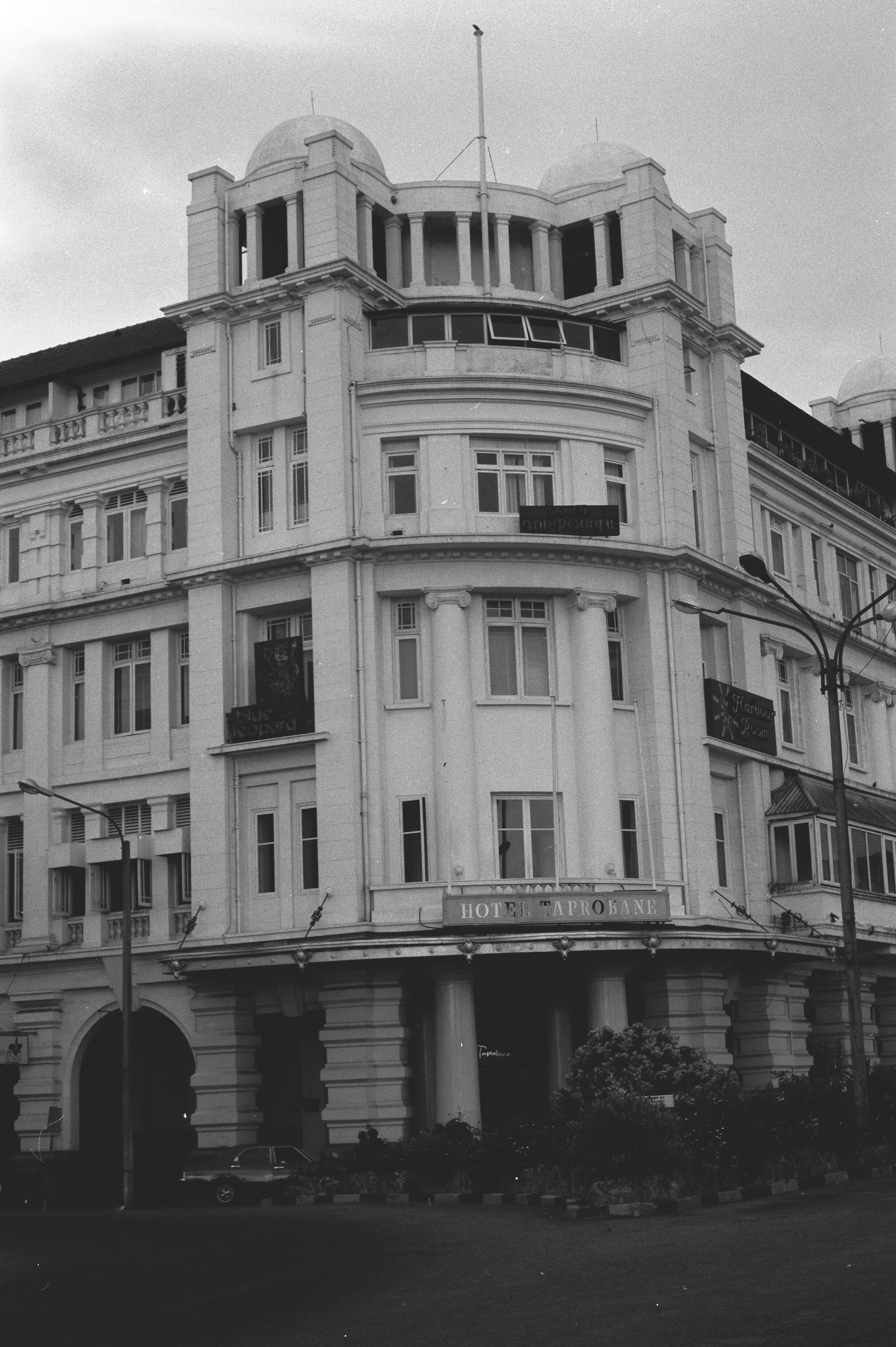 Frontage of the Taprobane Hotel (now known as the Grand Oriental Hotel) cnr York & Church Streets, Colombo